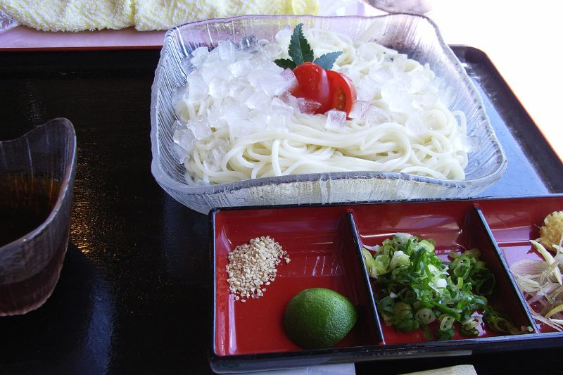 A meal of the summer. very cold!